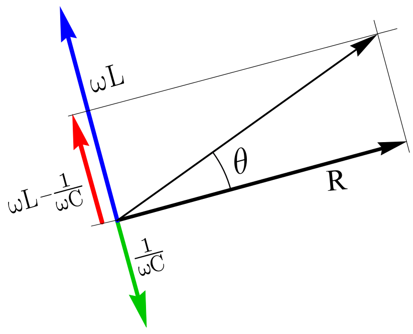 RCL-diagram